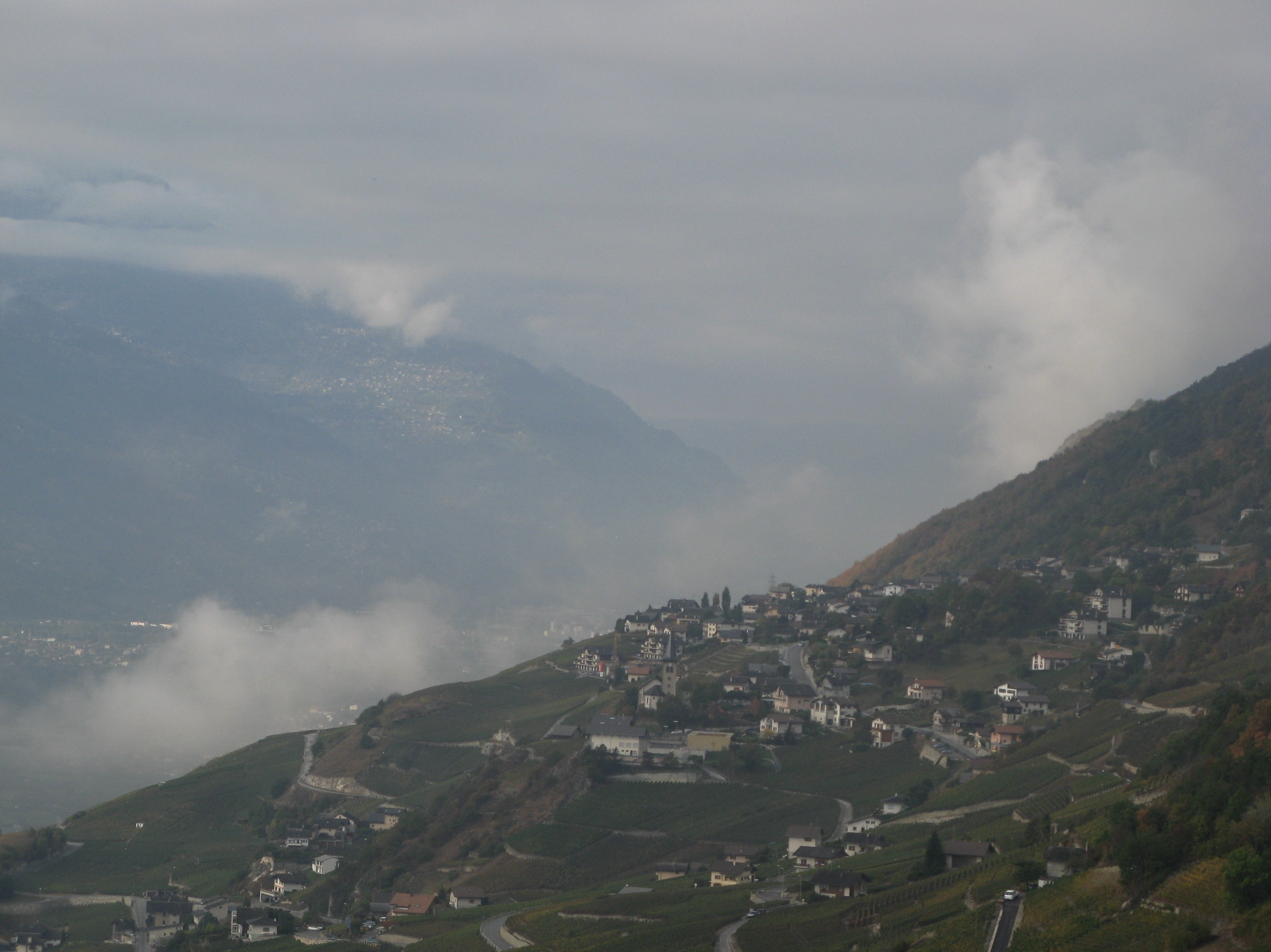 Napulitano: Vista ncopp'â Flanthey